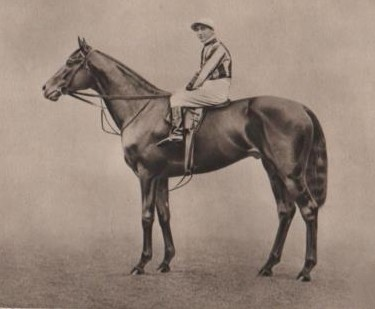 Pommern (1912–1935) was a British bred Thoroughbred racehorse who won the 1915 English Triple Crown and was best racehorse of his generation.